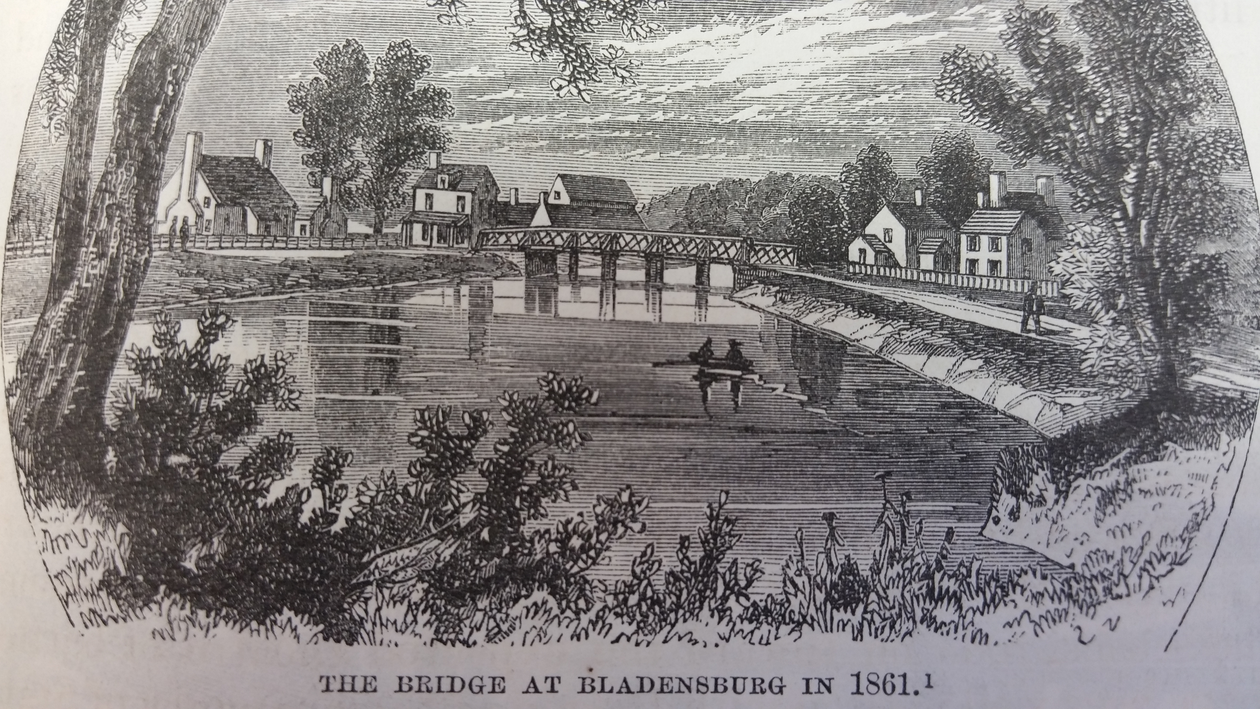 Bladensburg